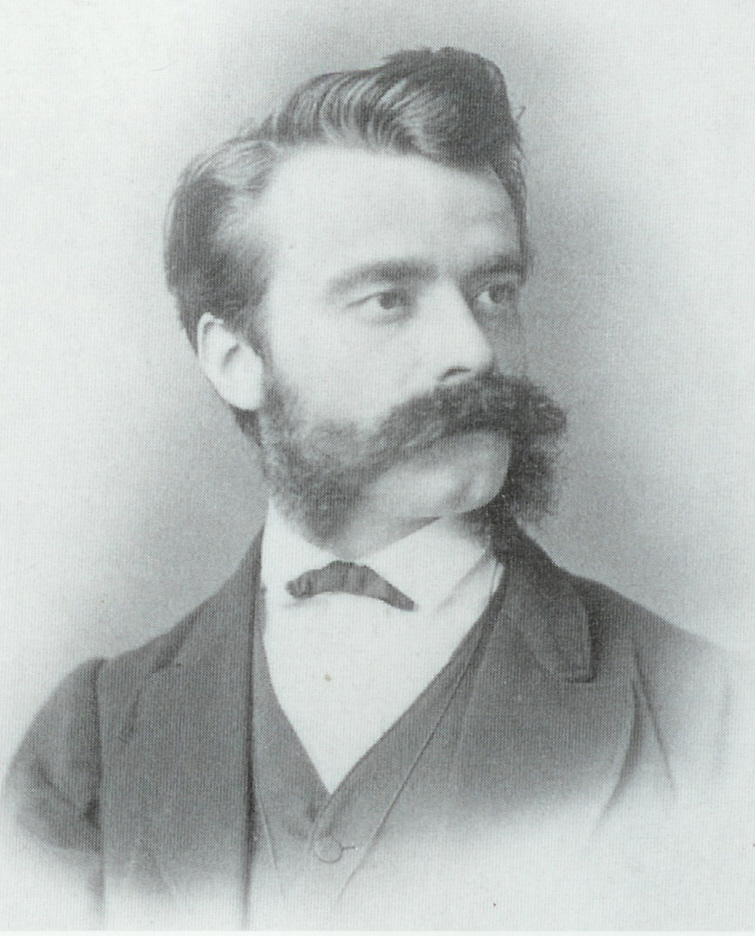 Robert Hartig (1839-1901), German forestry scientist and mycologist